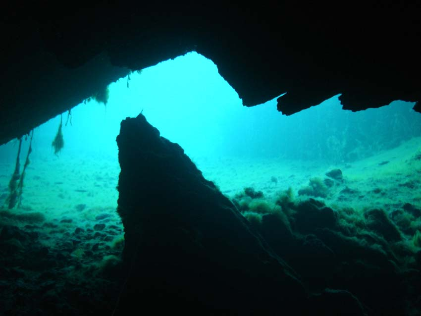 large karst spring Monumento Natural de la Fuentona, Spain